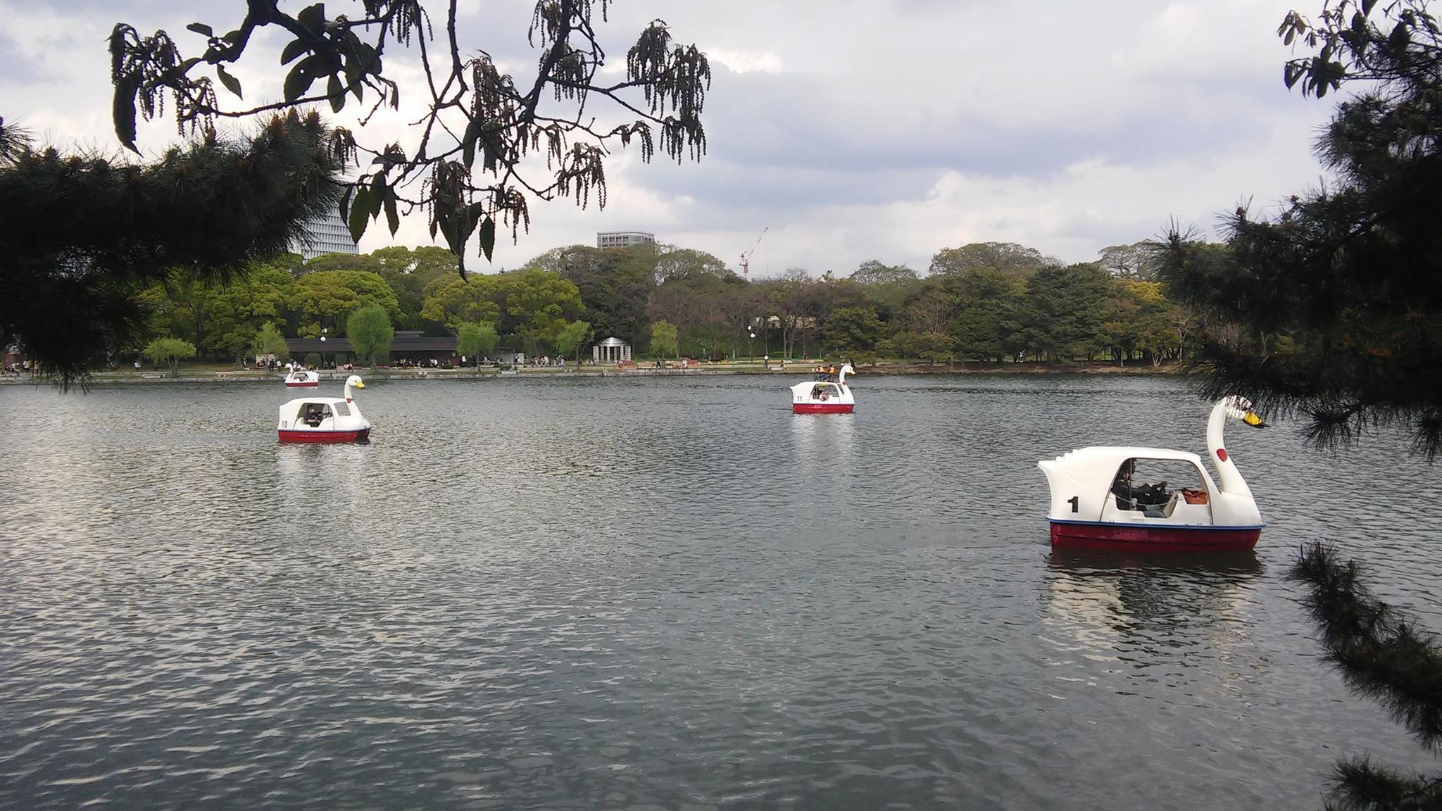 View of the boats in Ōhori park